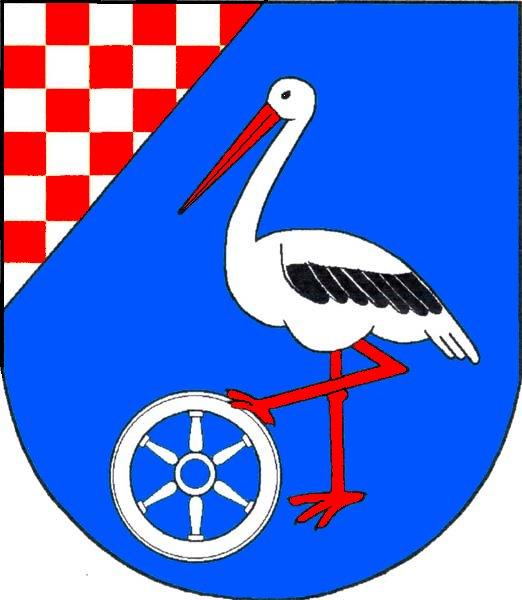 Municipal coat of arms of Prusy-Boškůvky village, Vyškov District, Czech Republic.